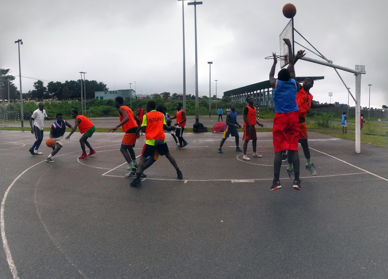 two scenarios merged in one picture. i did this to show the different energy that is seen when aiming for a goal and when you are so close to the hoop This is an image with the theme "Play" from: Cameroon